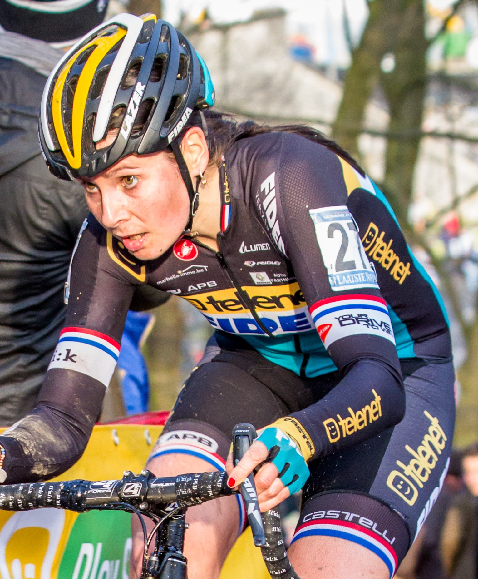 Nikki Harris (GBR) of Telenet/Fidea. UCI Cyclocross World Cup, Namur, 2015.